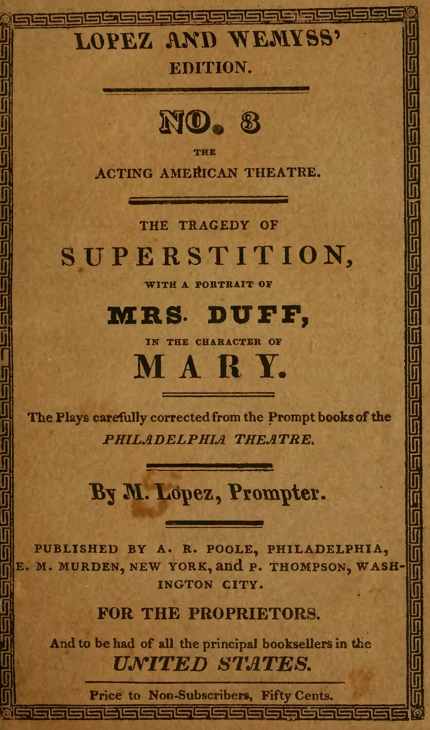 Poster describing Superstition by James Nelson Barker